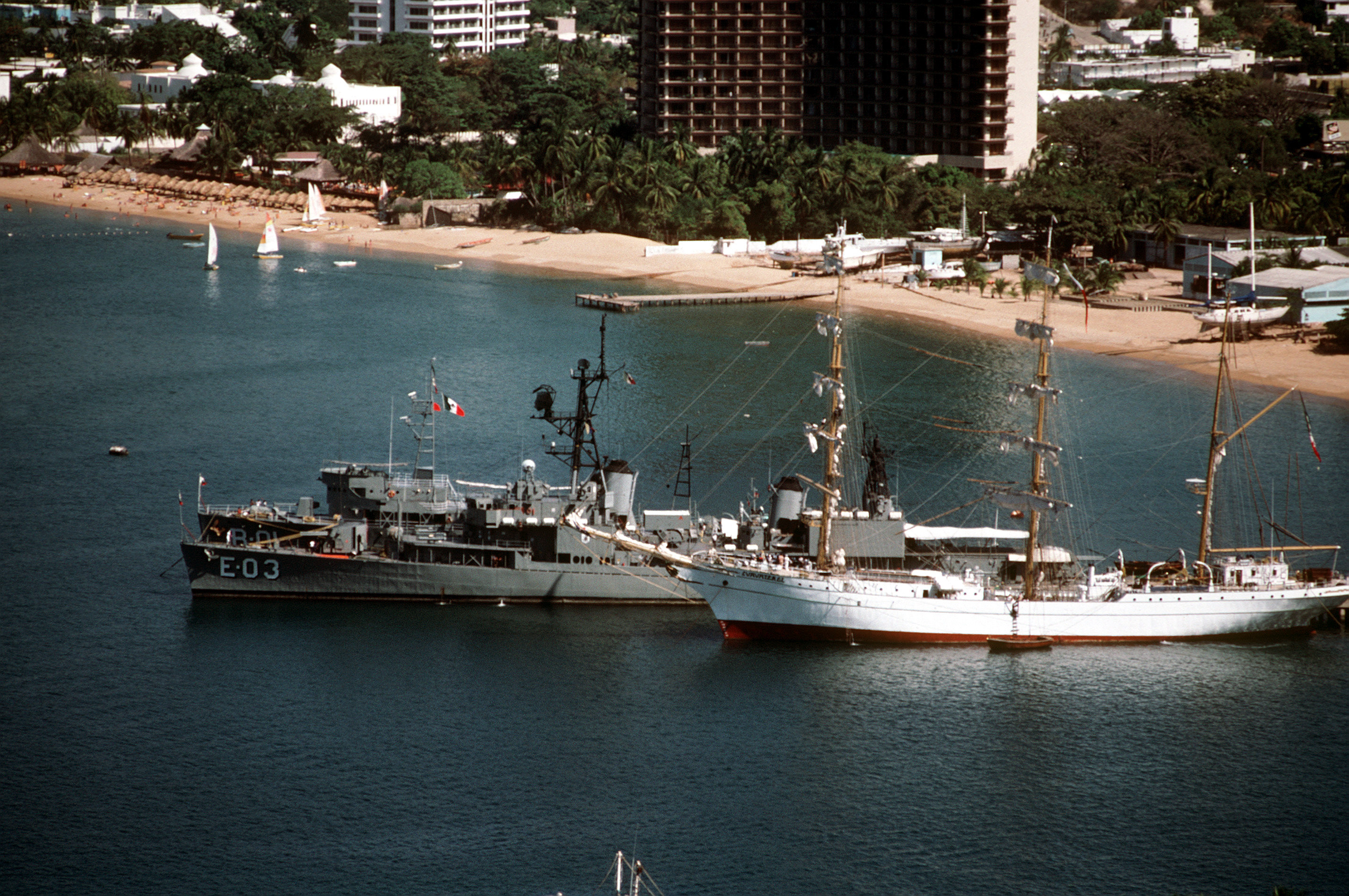 The Mexican Navy transport ship ARM Durango (B-01), the destroyer ARM Quetzalcoatl (E-03), formerly the USS Vogelgesang (DD-862), and the sail training ship Cuauahtemoc (A-07) tied up at the Naval Base Acapulco, Mexico, in 1985 (or 1995?).